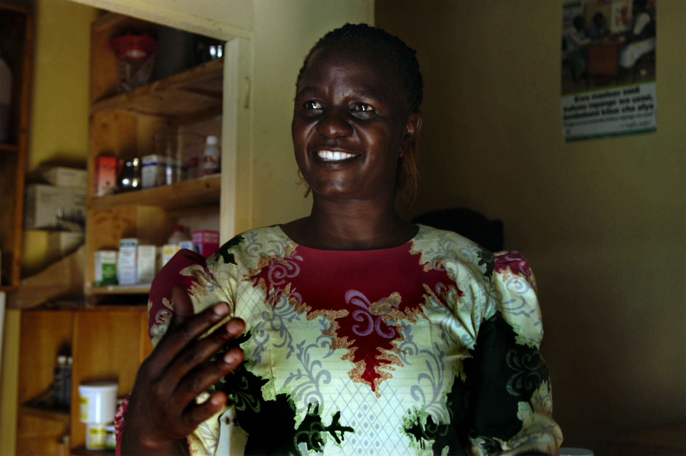 Portrait of CFK Co-Founder Tabitha Atieno Festo